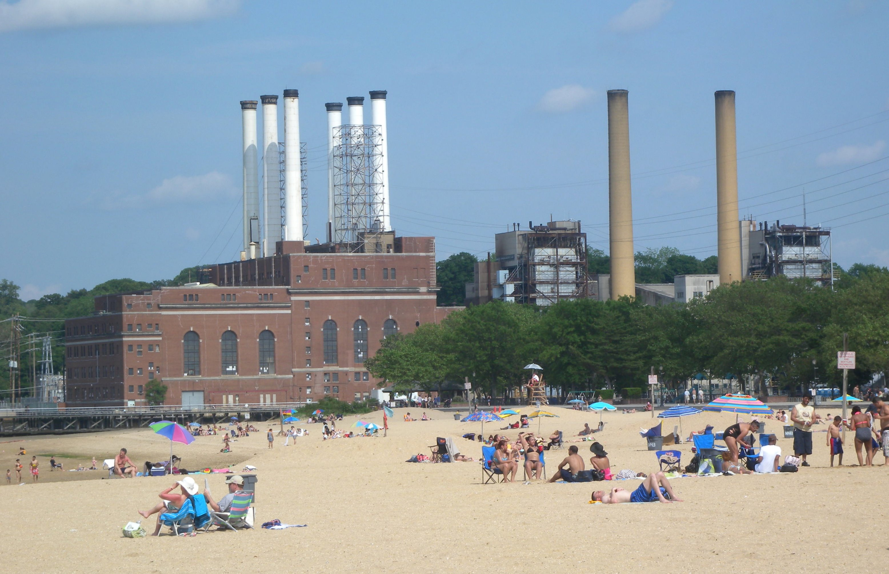 Looking southeast along Bar Beach at former Nassau Electric station on a sunny afternoon.